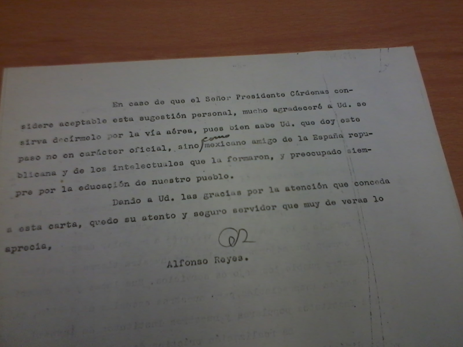 Document regarding Alfonso Reyes Ochoa (Spanish republican exile in Mexico) (retrieved from the historical archive of El Colegio de México, A.C.). Documentary research about the history of the creation of the institution and the Spanish exiles in Mexico during the Spanish civil war. Documentary collections consulted: Alfonso Reyes (box 6, files 7 and 10) and Daniel Cosío Villegas (box 4, file 12; box 16, file 13).